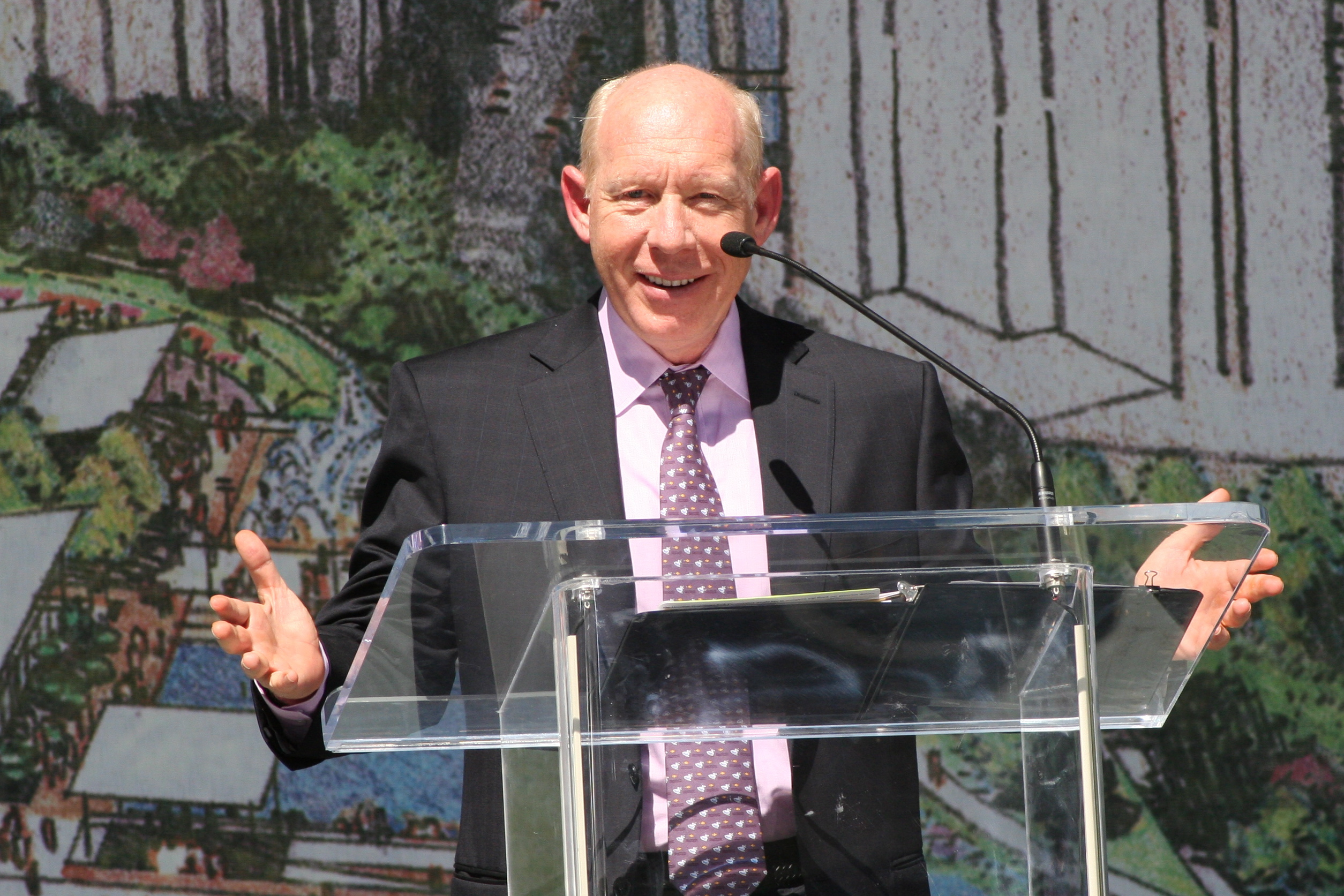 Photo of Houston, Texas mayor Bill White.